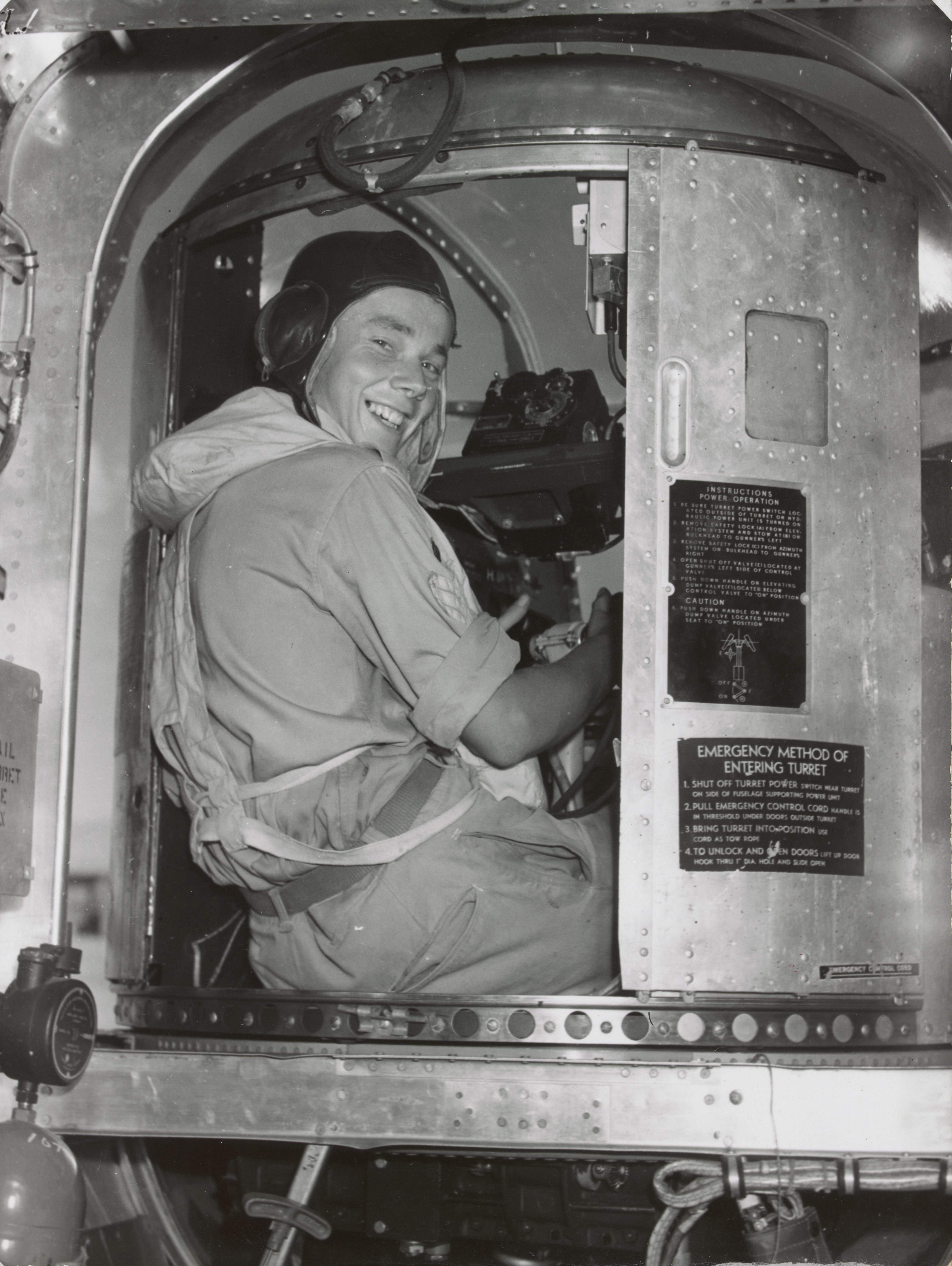 Liberators at Darwin.